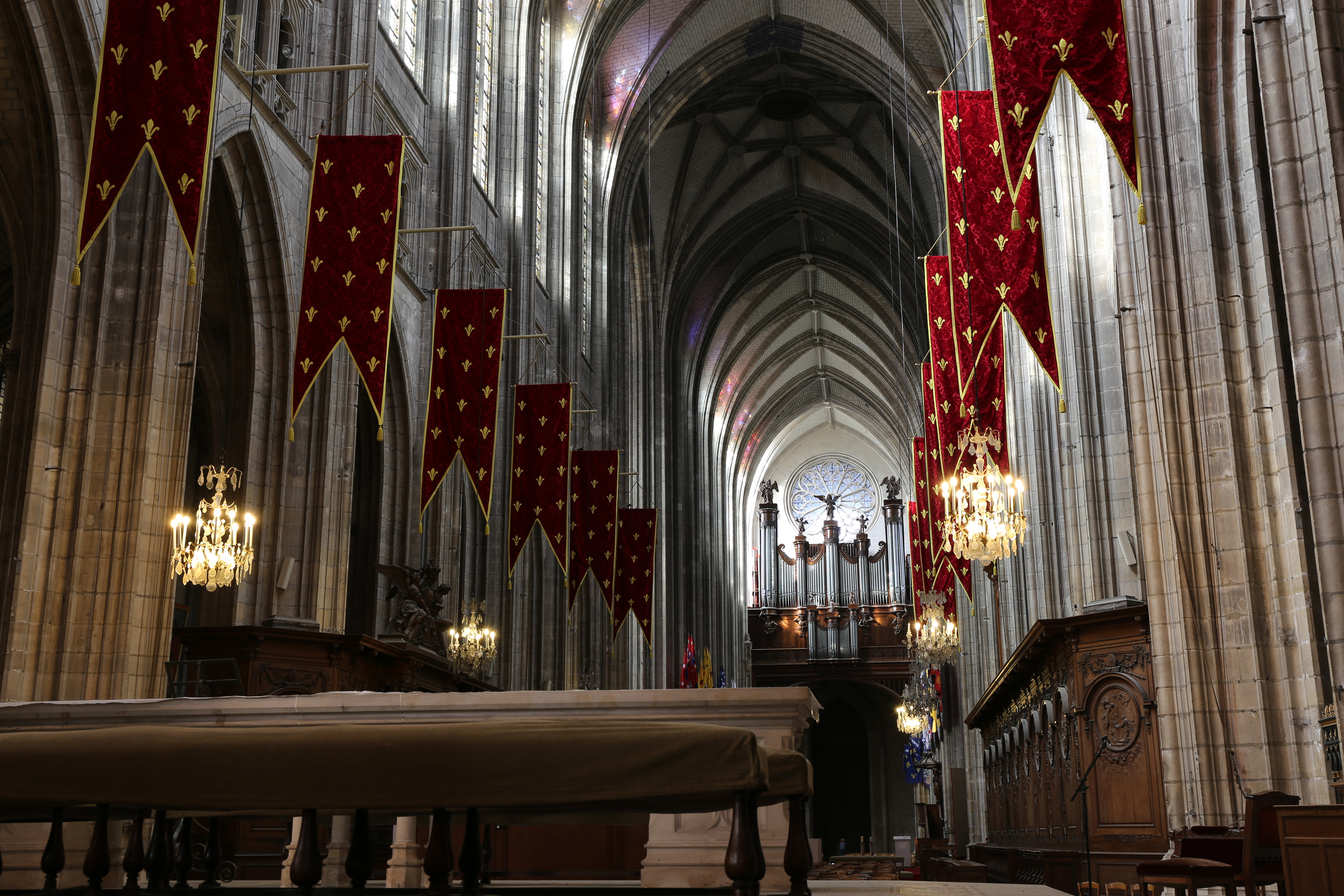 Orléans Cathedral: choir and nave seen from the choir.